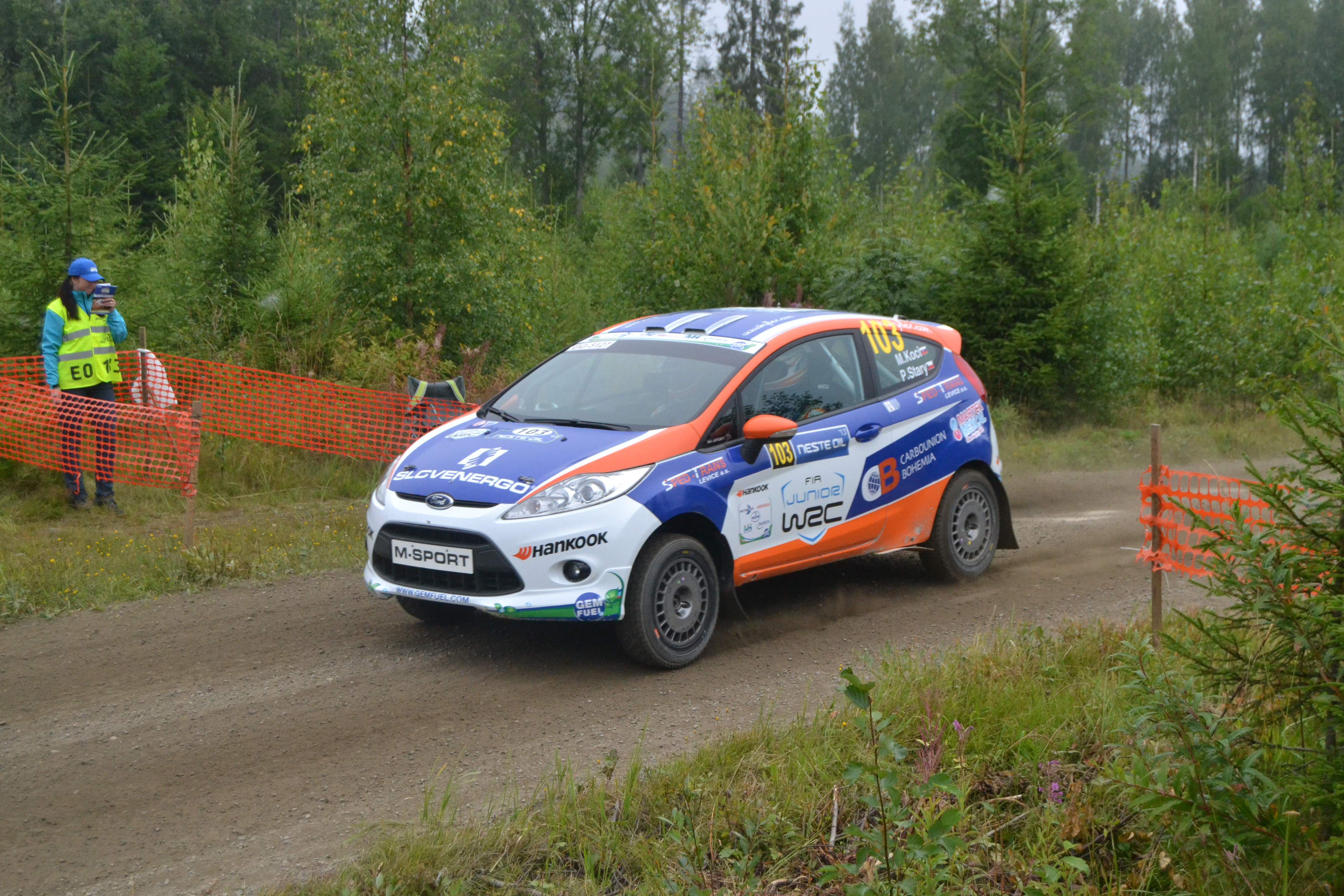 Martin Koči at 1st Surkee stage at 2013 Rally Finland